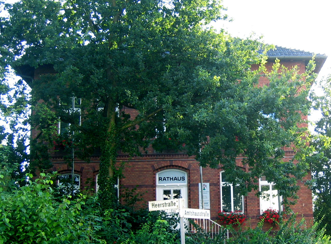 Town hall of the town of Rödinghausen-Westkilver, Germany.